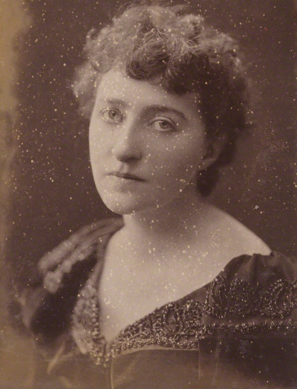 by Hayman Seleg Mendelssohn, albumen print, 1894